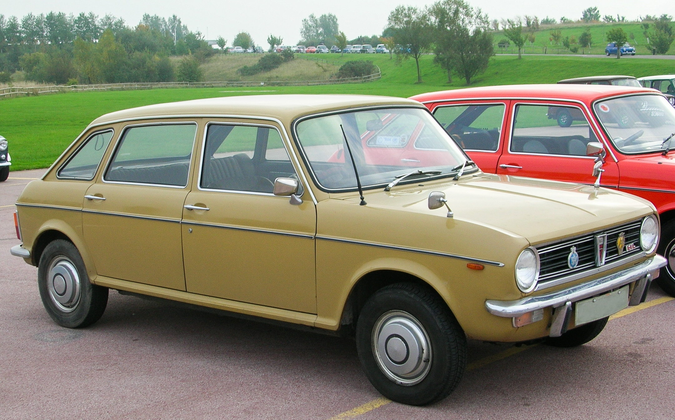 A 1972 Austin Maxi 1750 HL. Photographed at the Alec Issigonis centenary rally at the Heritage Motor Centre, Gaydon, UK.